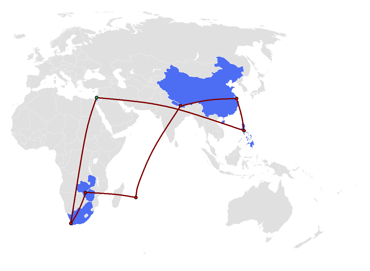 This is the Route Map for the seventh season of HaMerotz LaMillion.